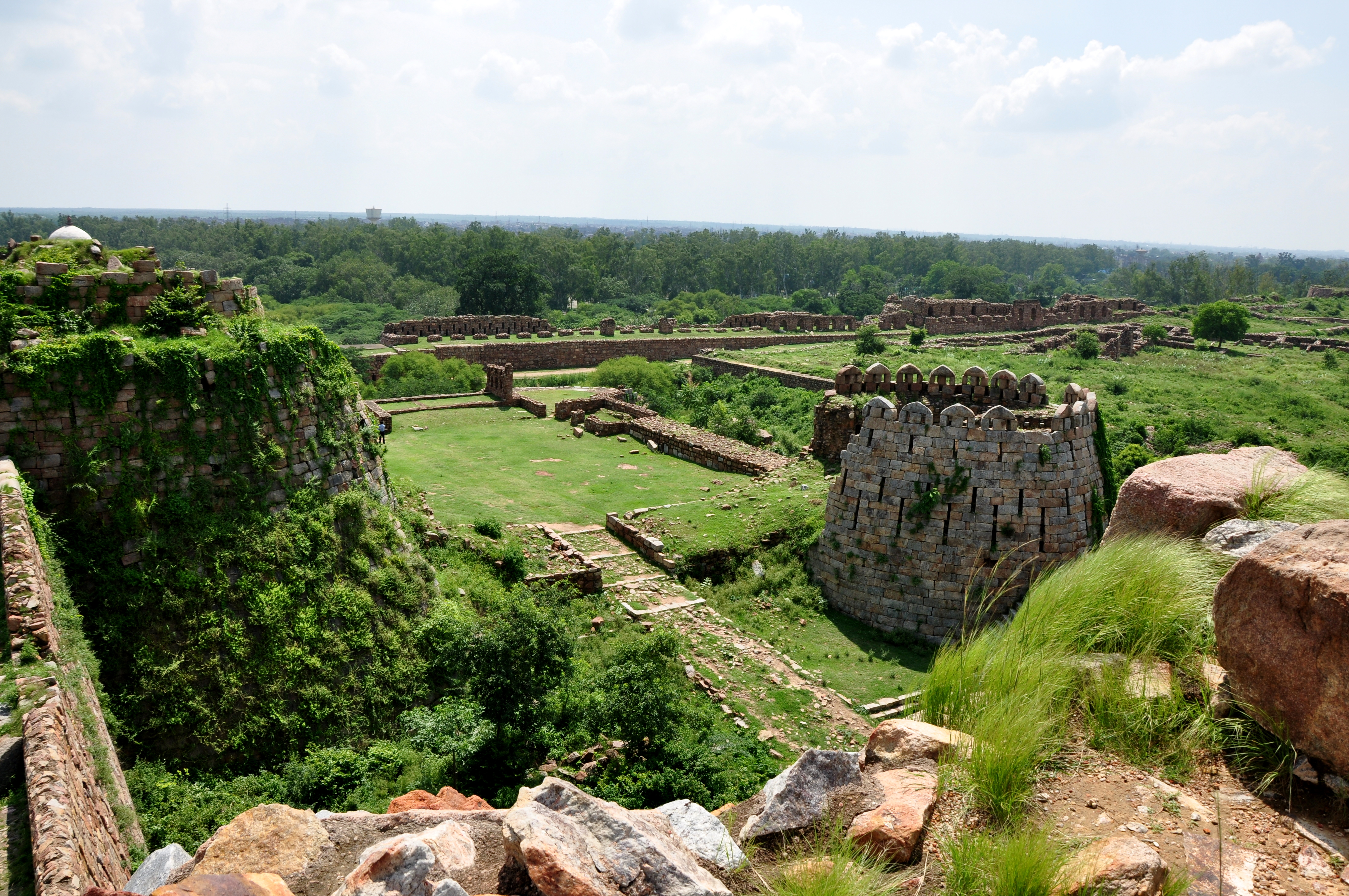 These Bastions Line up the entrance to the interior citadels of the old city of Tughlaqabad. Although presently in ruins, enough have survived as a reminiscence of the grandeur of This massive fortified city.